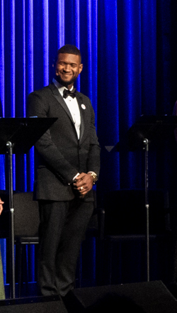 First Lady Melania Trump watches a REACH spoken word performance Thursday, Sept. 5, 2019, at the John F. Kennedy Center for the Performing Arts in Washington, D.C. From left, performers Marc Bamuthi Joseph, Alfre Woodard, Usher Raymond, Larisa Martinez, Kevin Sylvester and Wilner Baptiste. (Official White House Photo by Andrea Hanks)